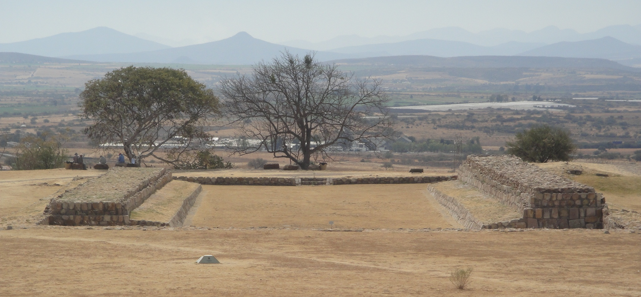 Template:Plazuelas ballgame court